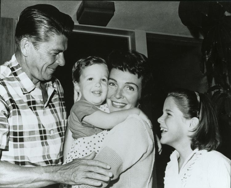 Ronald Reagan, son Ron, Nancy Reagan and daughter Patti outside their Pacific Palisades home in California.